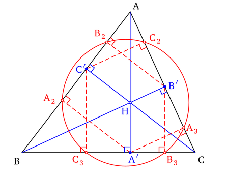 Taylor Circle of a triangle